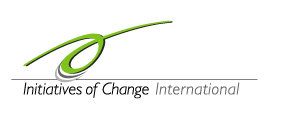 Initiatives of Change - International - Logo